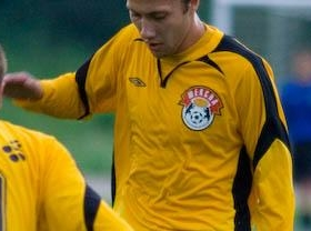 Aleksandr Bukleev in action for FC Sheksna